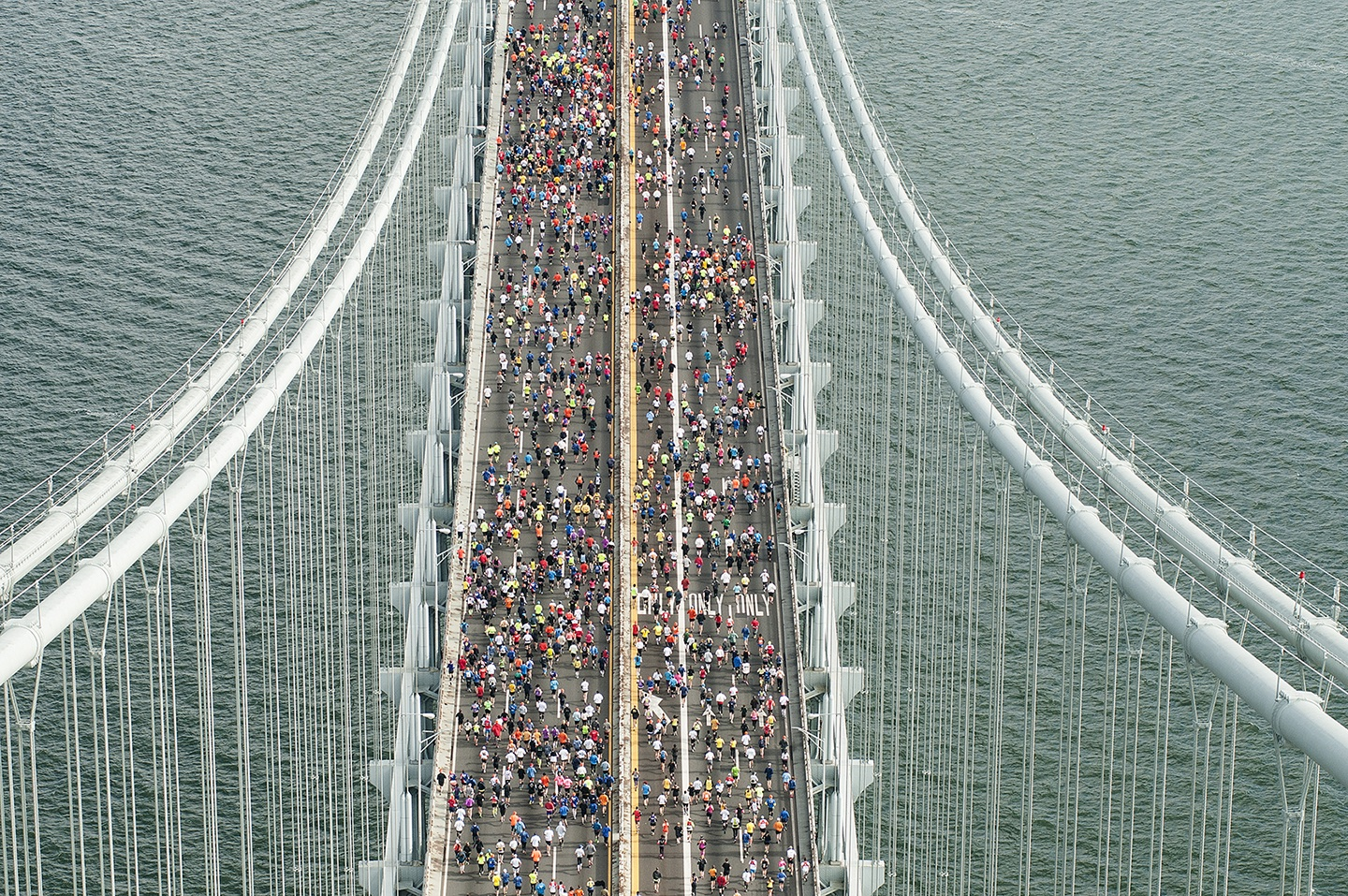 On Sunday, November 3, 2013, the MTA's Verrazano-Narrows Bridge hosted the first mile of the New York City Marathon. Photo: Metropolitan Transportation Authority / Patrick Cashin.